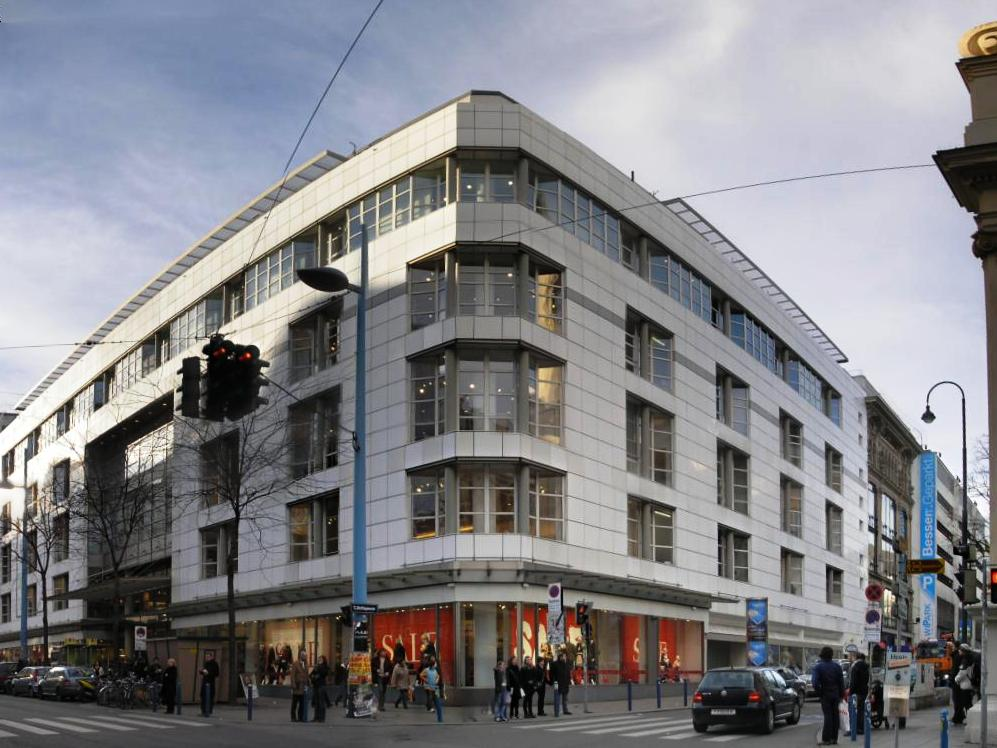 The original A. Herzmansky store at Mariahilfer Straße in Vienna, today Peek & Cloppenburg.